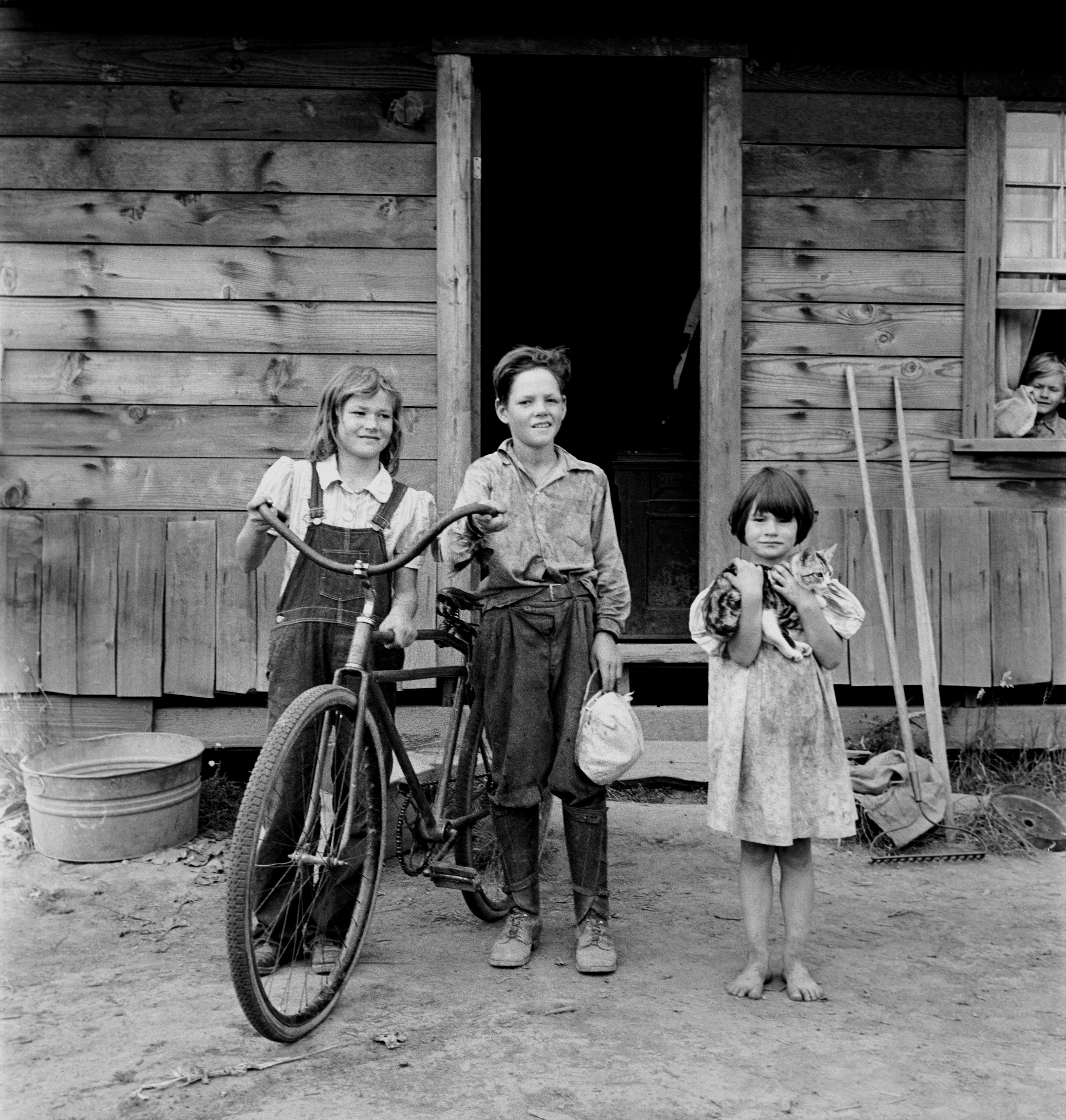 Three of the four [actually all four, plus cat] Arnold children. The oldest boy earned the money to buy his bicycle. Western Washington, Thurston County, Michigan Hill. Left to right: Hazel; Irving; Norma; Charles[1]